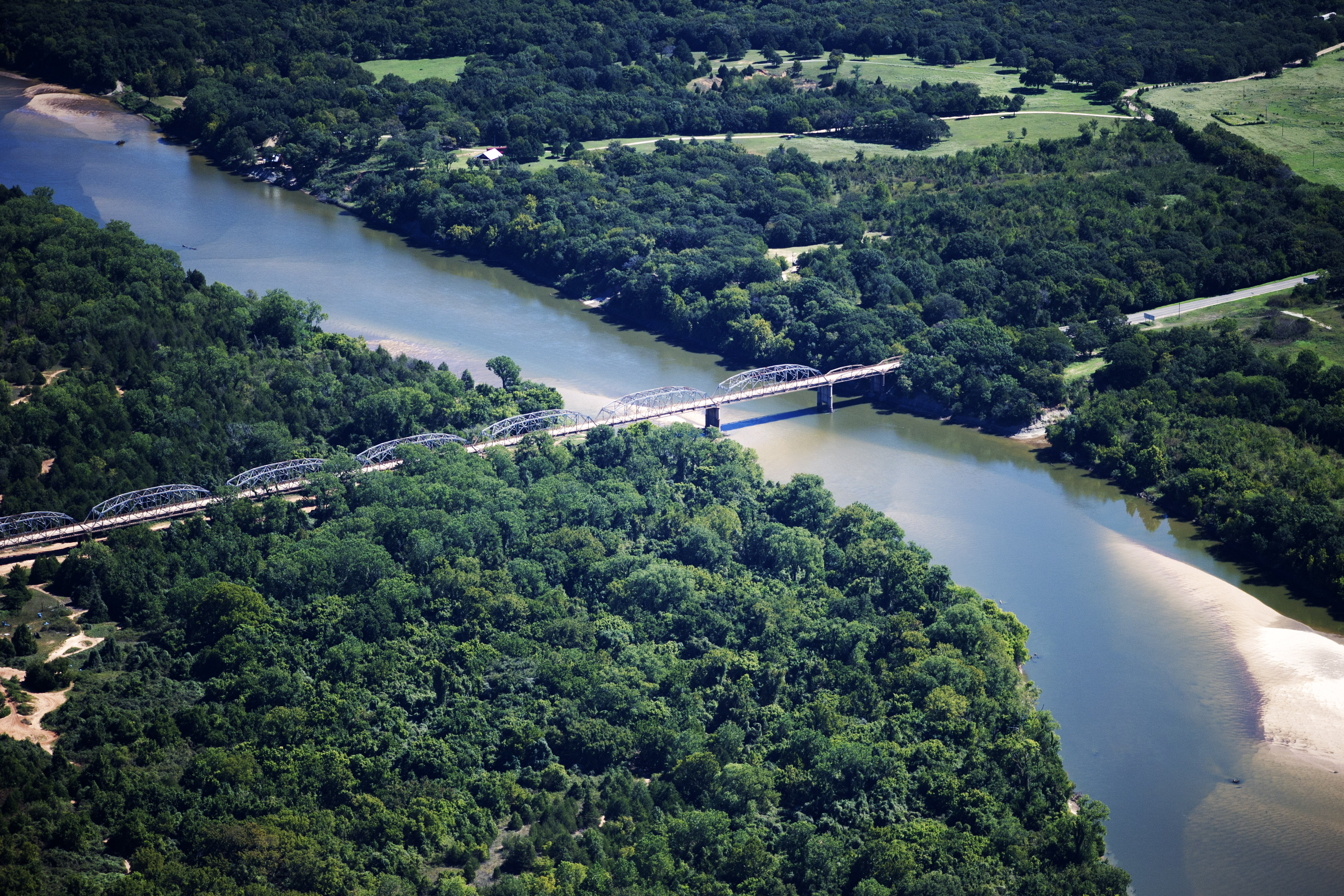 Aerial view of the State Highway No. 78 Bridge — which carries Oklahoma State Highway 78 and Texas State Highway 78 over the Red River of the South. The Through truss bridge was completed in 1937 as part of President Franklin Roosevelt's New Deal, and is listed on the National Register of Historic Places.